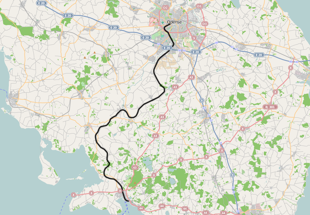 Railway line Odense - Faaborg